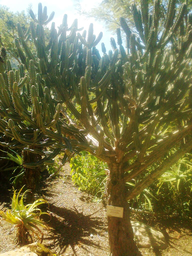 Swazi Euphorbia - Euphorbia keithii